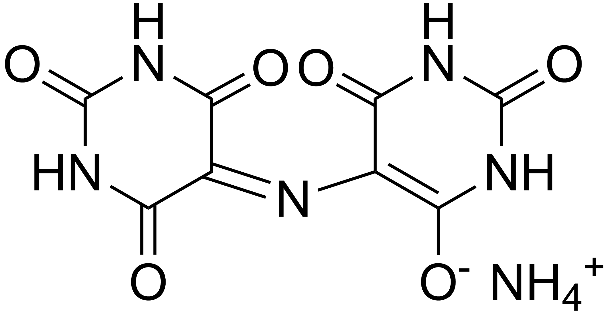 Description: Chemical structure of Murexide Author, date of creation: selfmade by Shaddack, November 2005 Source: self-made Copyright: Public Domain (PD) Comments: b/w hires PNG; ChemDraw